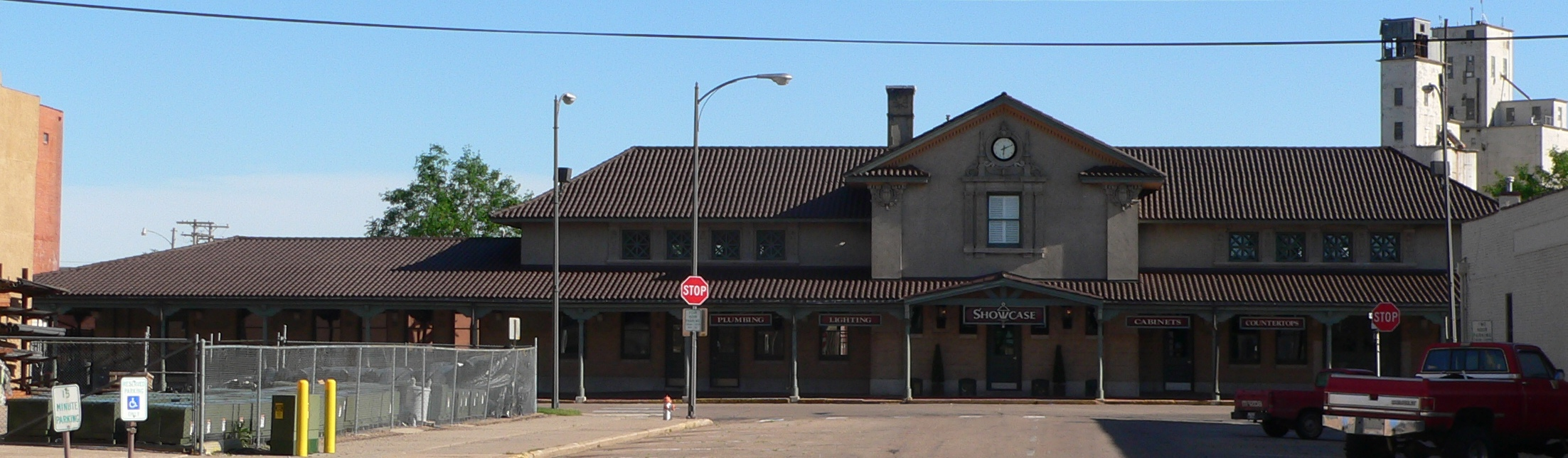 Burlington Station in Hastings, Nebraska; seen from the north. The Spanish Colonial Revival building was constructed in 1900, and is listed in the National Register of Historic Places. It continues to serve as an Amtrak station.